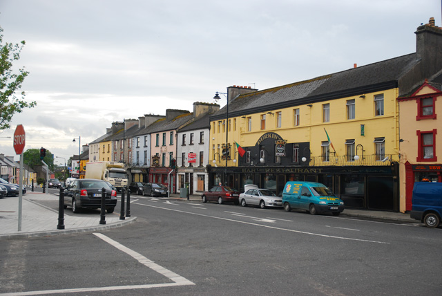 Durkin's Hotel, Ballaghaderreen, near to Ballaghaderreen, Roscommon, Ireland.